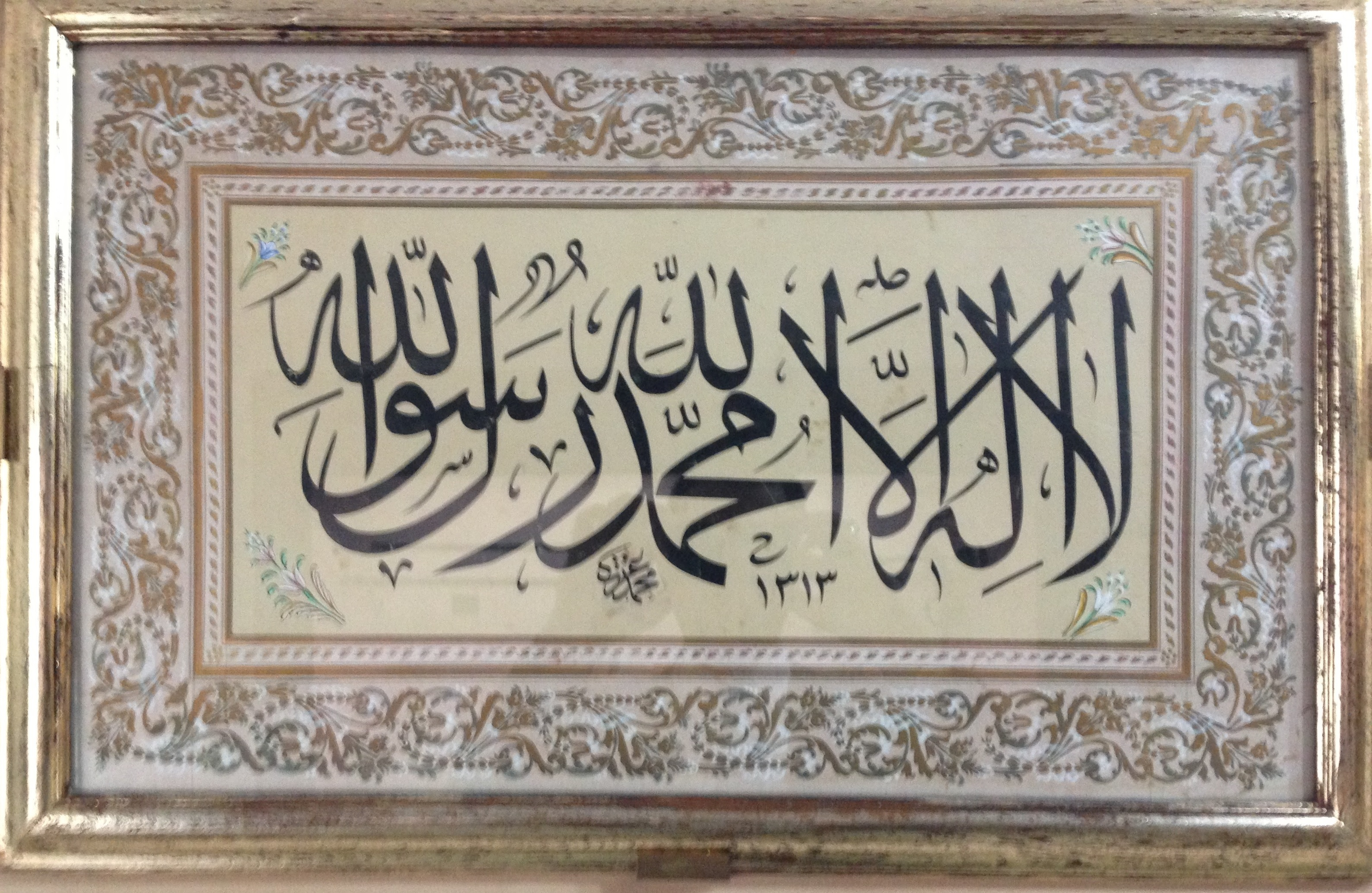 The Kalima Tawhid in calligraphy by Kazasker Zade Mehmet Izzet Efendi 1313 AH (1895 AD)